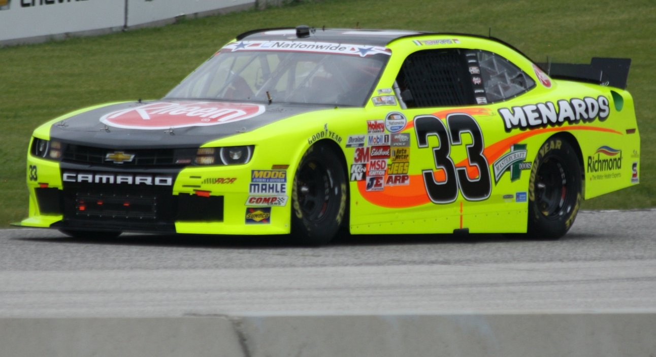 The NASCAR Nationwide car of Max Papis during the w:2013 Johnsonville Sausage 200 at Road America.